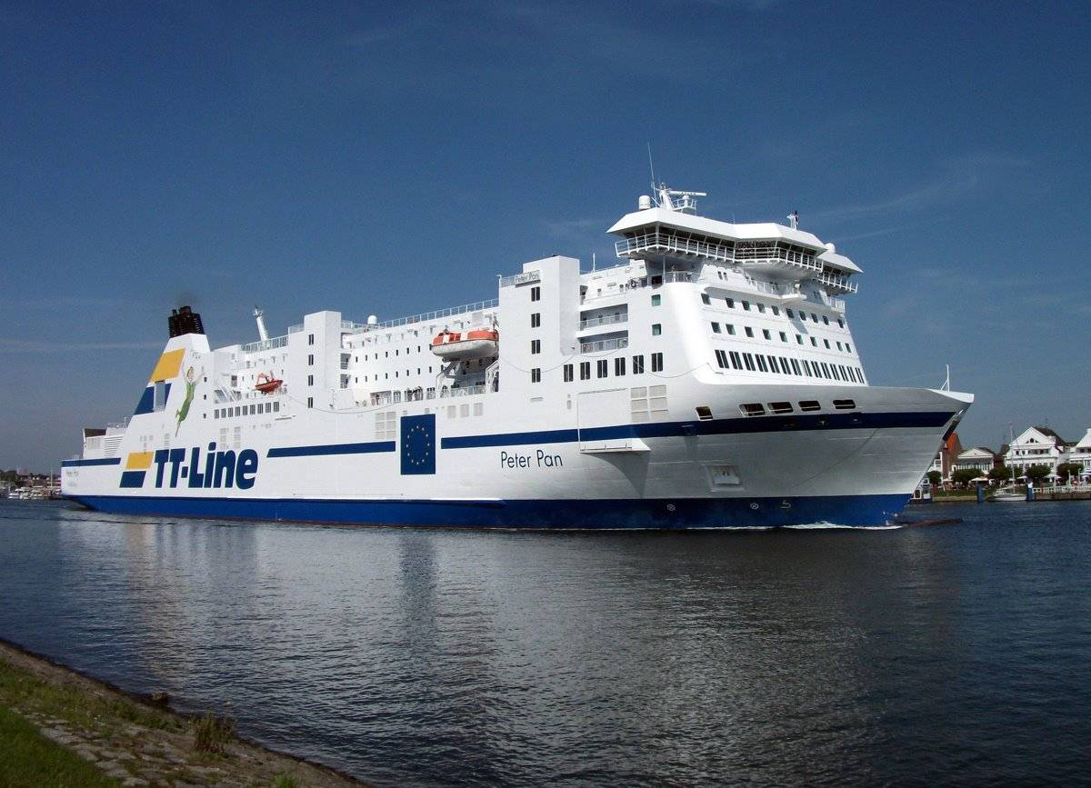 MS Peter Pan leaving Travemuende